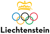 The new logo of the Liechtenstein Olympic Committee.